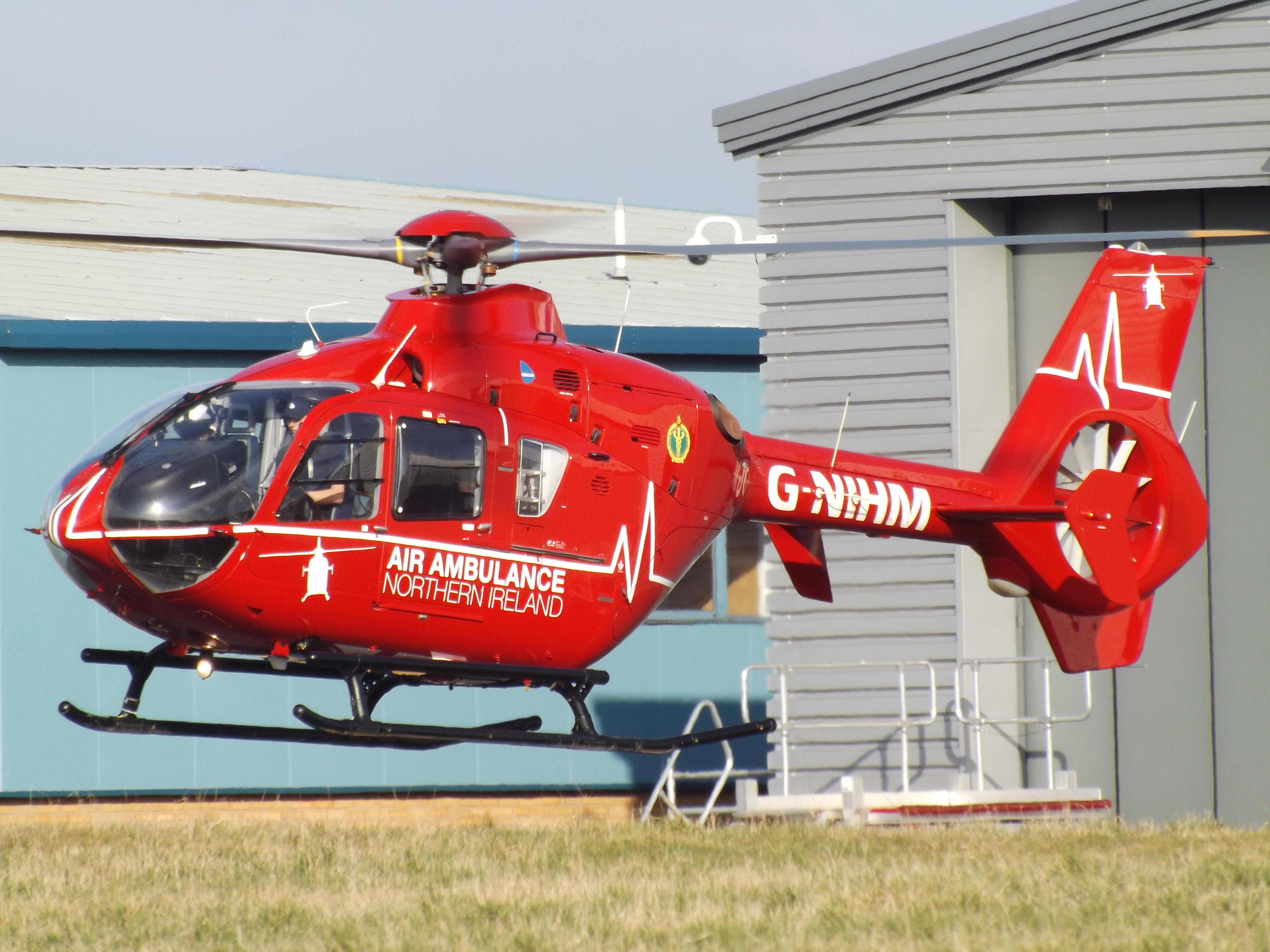 At Gloucestershire Airport.